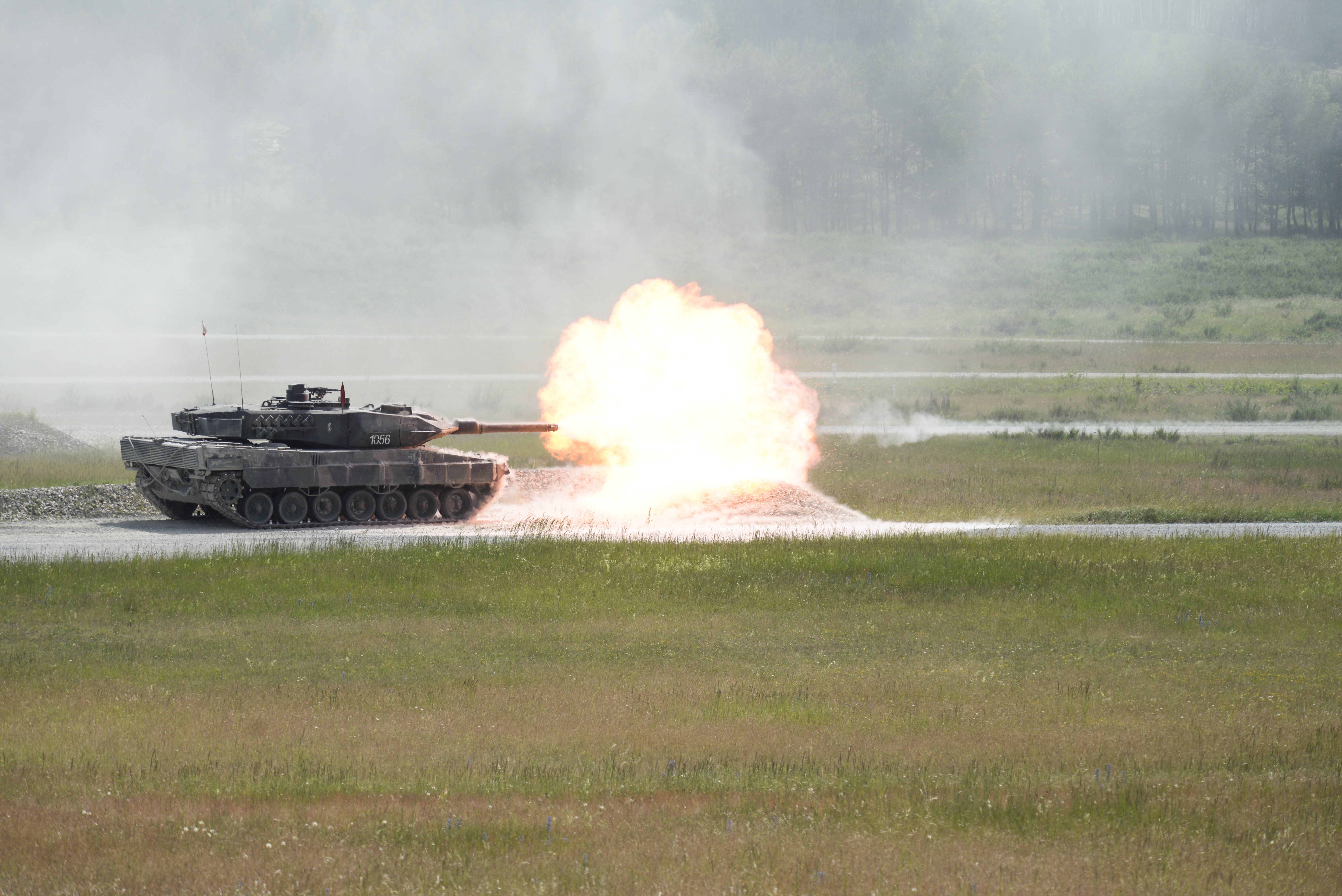 A Polish Leopard 2A5 fires it's main gun during the shoot-off of Strong Europe Tank Challenge. U.S. Army Europe and the German Army co-host the third Strong Europe Tank Challenge at Grafenwoehr Training Area, June 3 - 8, 2018. The Strong Europe Tank Challenge is an annual training event designed to give participating nations a dynamic, productive and fun environment in which to foster military partnerships, form Soldier-level relationships, and share tactics, techniques and procedures.